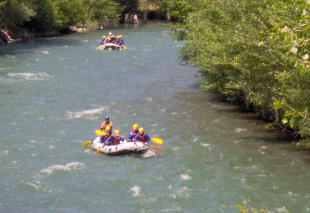 Rafting in Noguera Pallaresa.Rafting en Sort